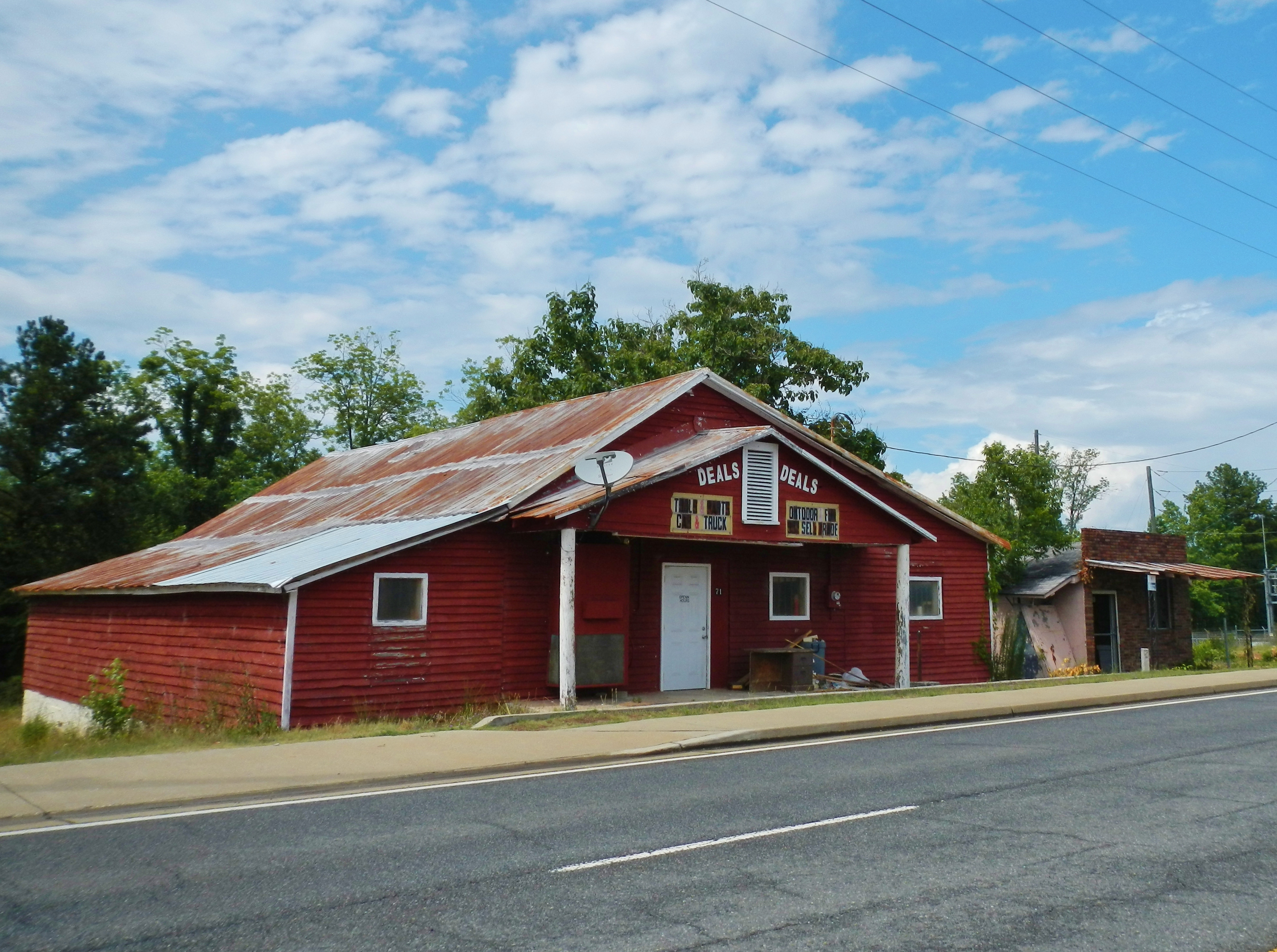 This is a photograph of Geneva, Georgia.